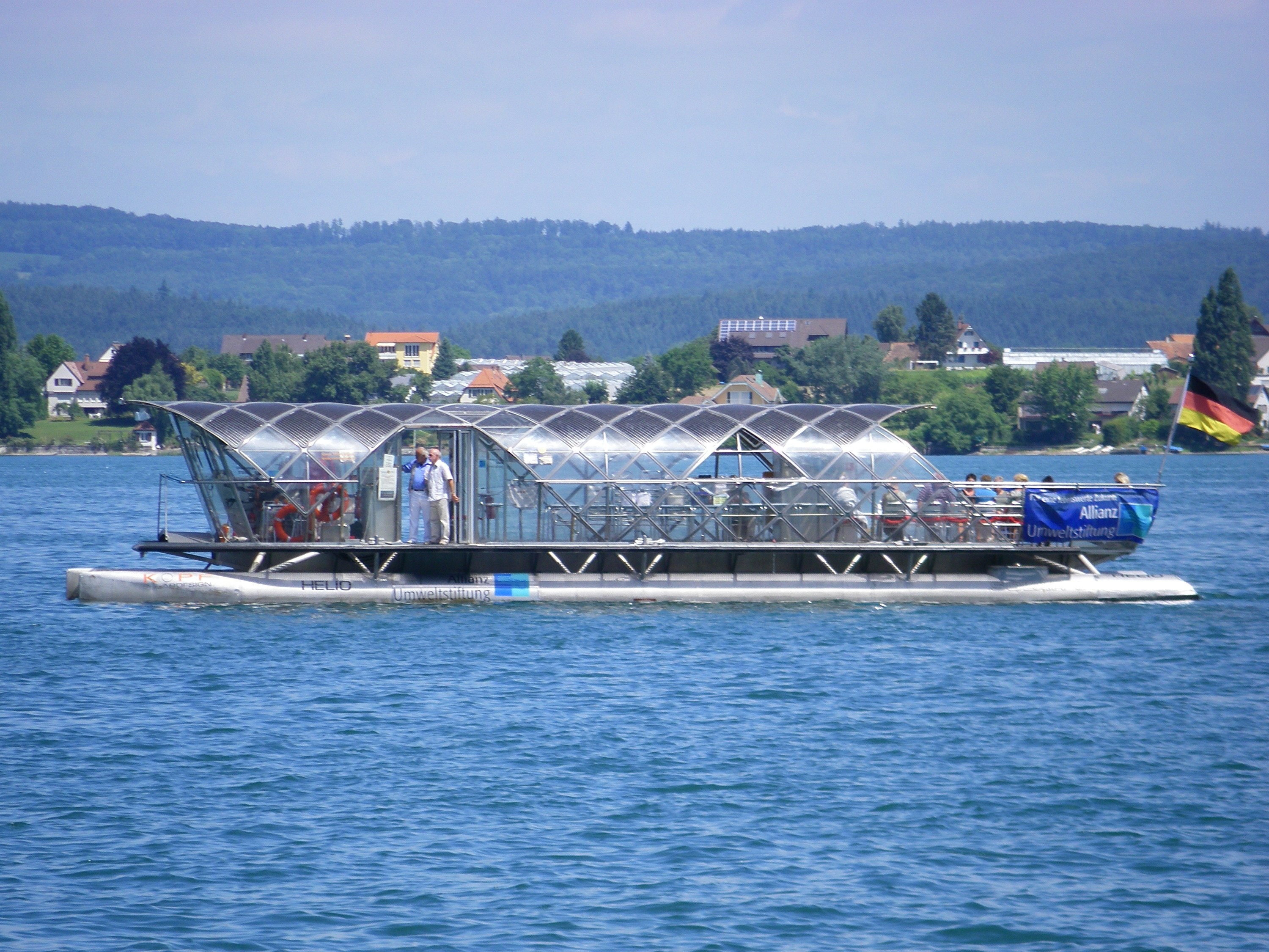 RA 66 Helio on the Untersee, a part of Lake Constance. The solar-powered catamaran is based in Radolfzell.